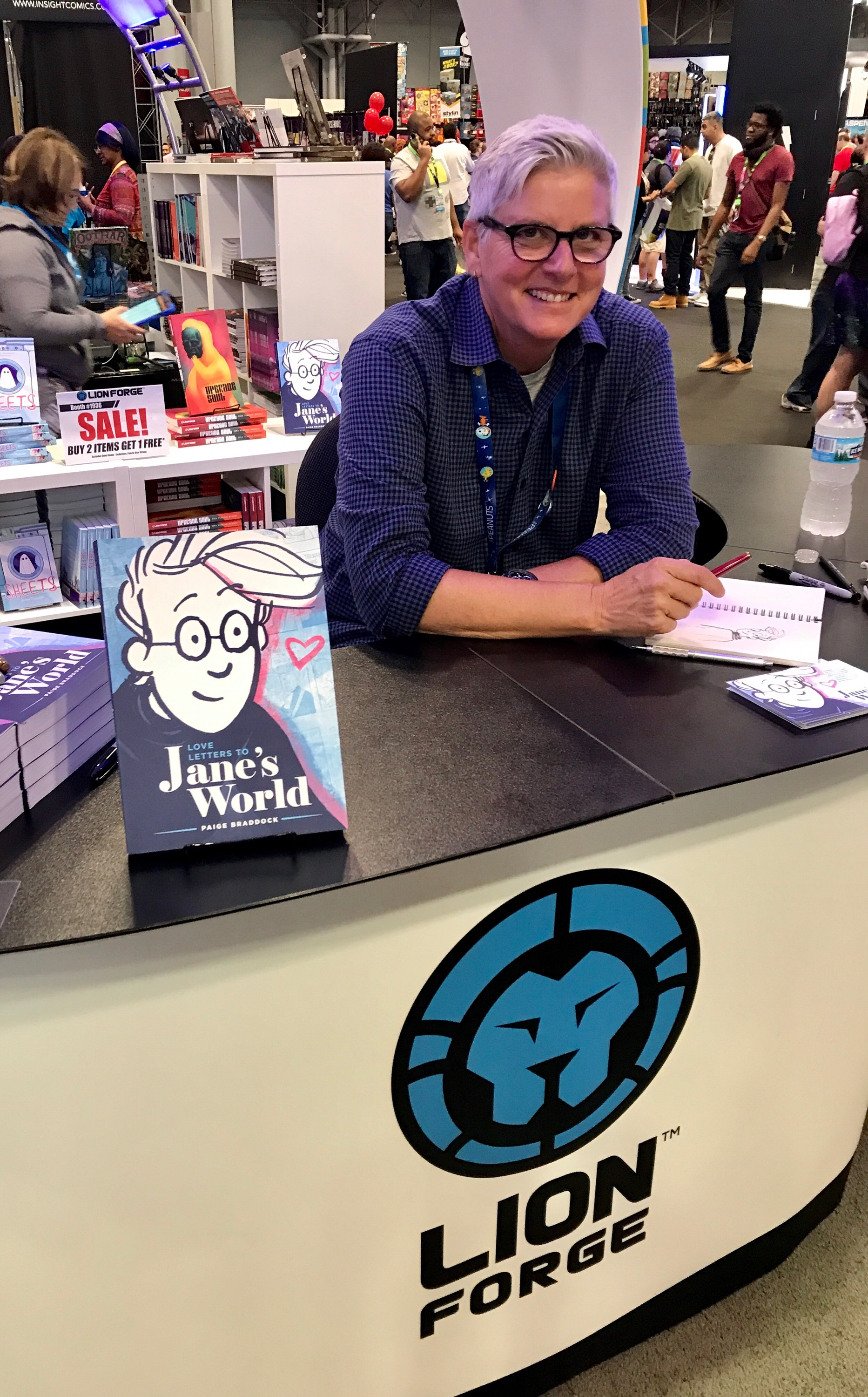 Paige Braddock at NY Comic Con in 2018, the author's latest signing of Jane's World comic strip.